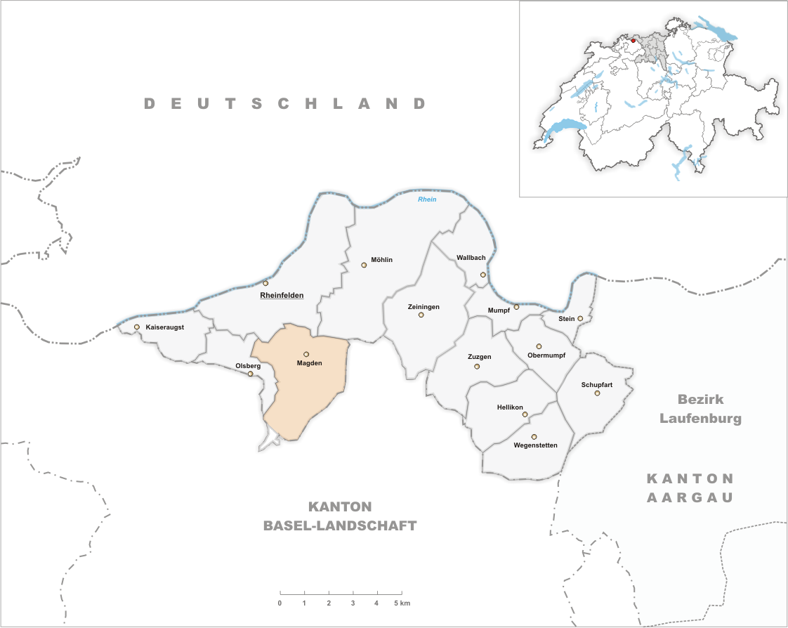 Municipality Magden